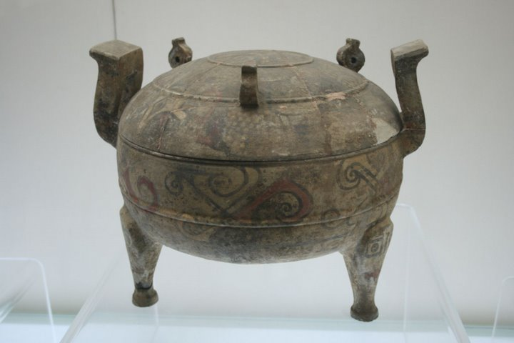 Chinese painted pottery vessel from the Warring States Period (403-221 BC) of ancient China.